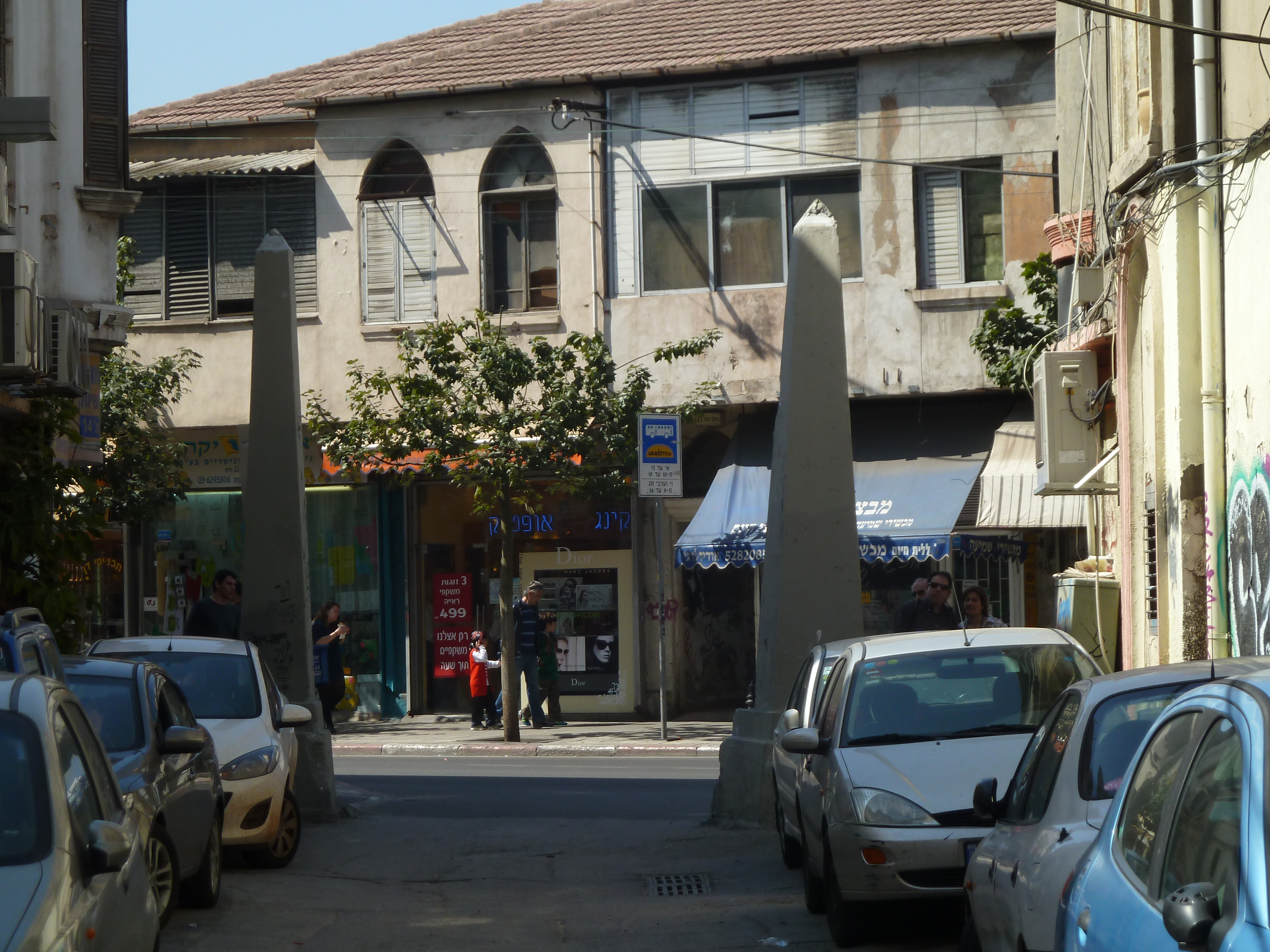 Simta Plonit, Tel Aviv